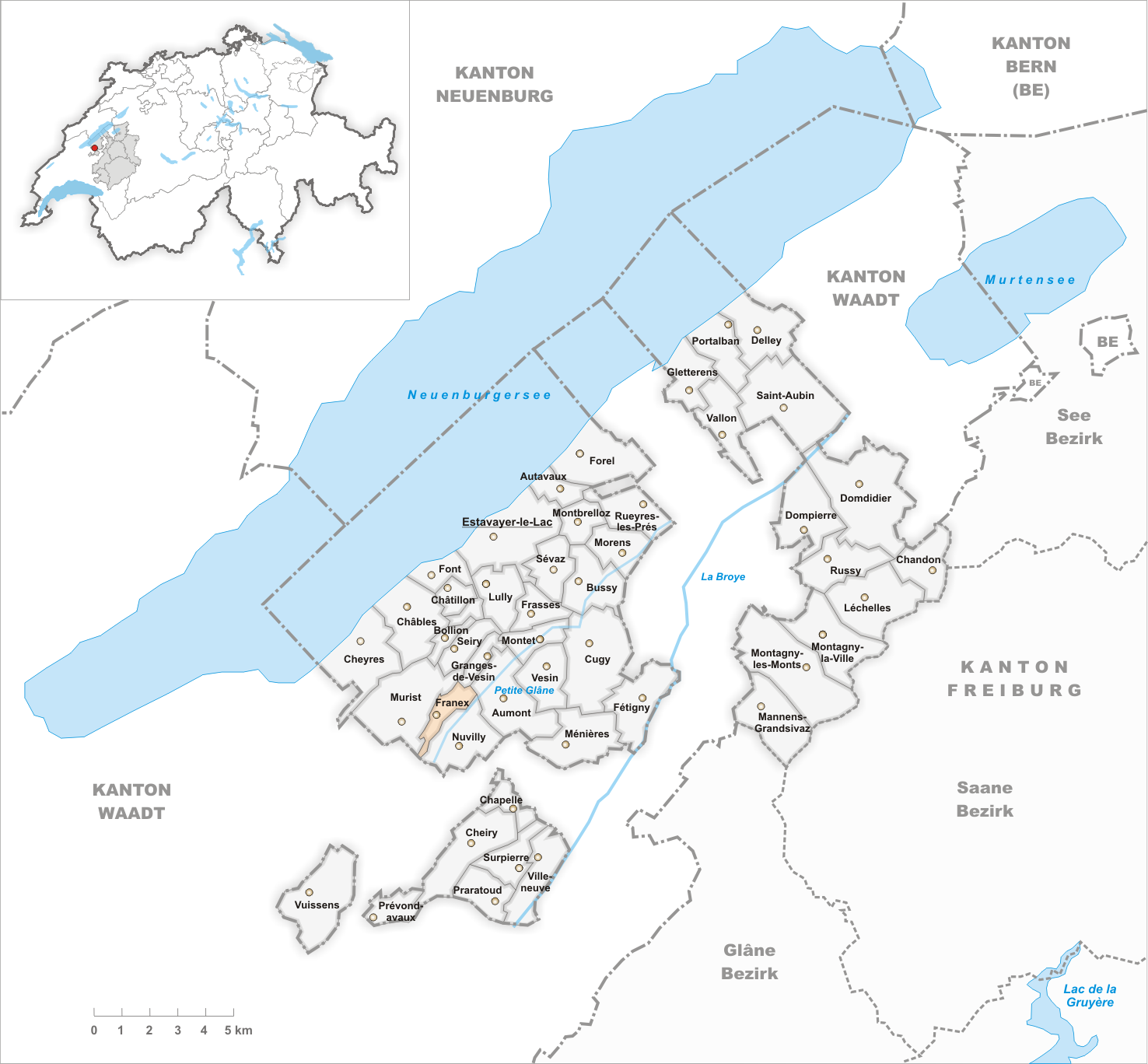 Municipality Franex Artist: Tschubby